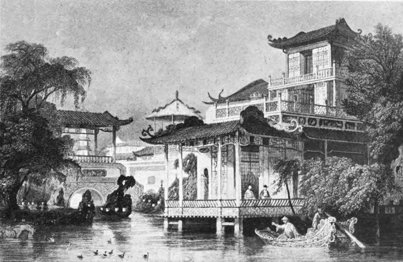 House of a Chinese merchant near Canton